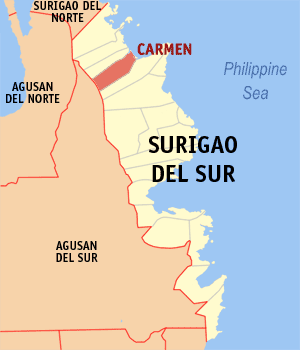 Map of the Surigao del Sur showing the location of Carmen